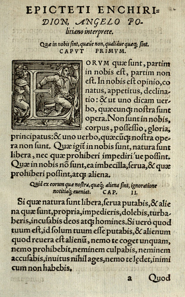 Page 1 of Angelo Poliziano’s Latin translation of Epictetus’ Enchiridion, from the book Arriani Nicomediensis De Epicteti philosophi, praeceptoris sui, dissertationibus libri iiii […], accessit Epicteti Enchiridion, Angelo Politiano interprete, Basel 1554.